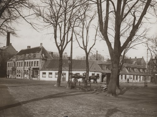 Vibenhus Runddel, corner of Jagtvej and Kyngbyvej, in Copenhagen, Denmark